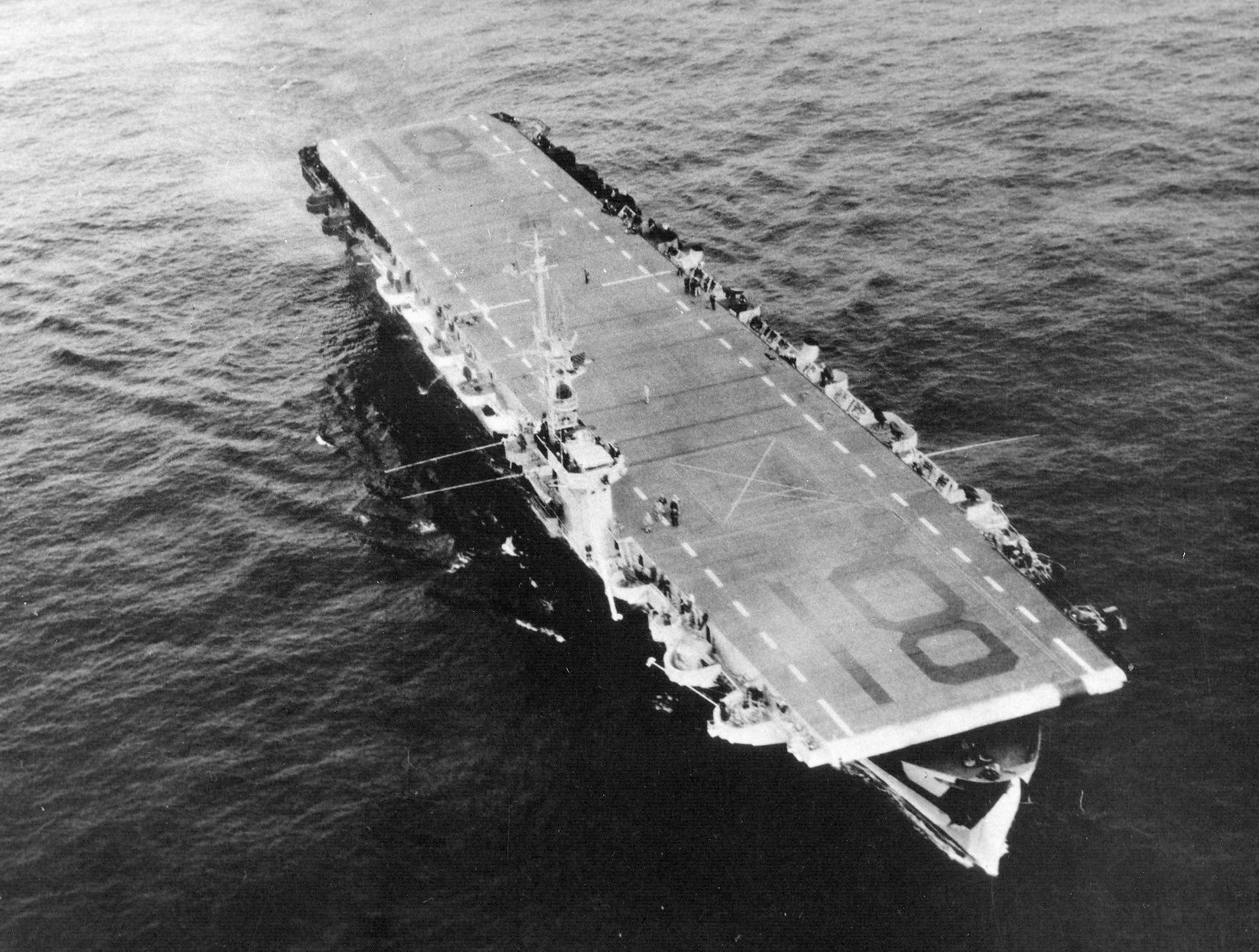 The U.S. Navy escort carrier USS Rudyerd Bay (CVE-81) underway on 19 July 1944. She wears camouflage Measure 32, Design 15a.